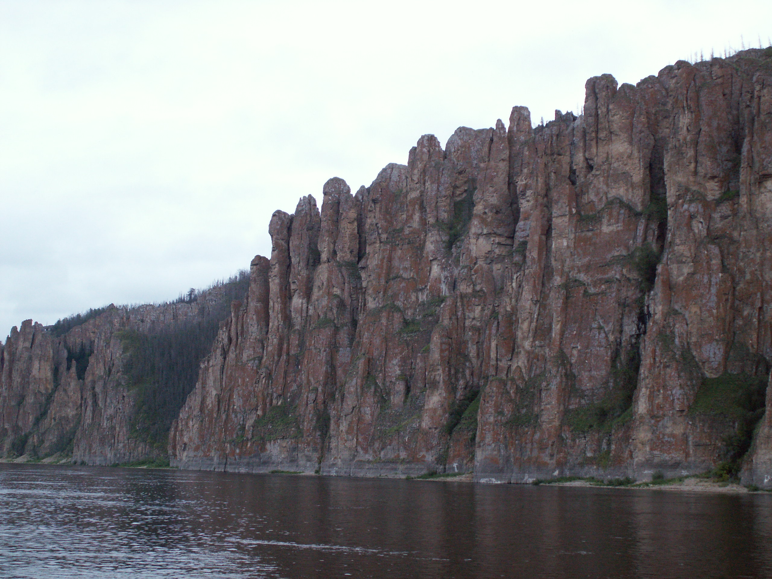 Lena Pillars